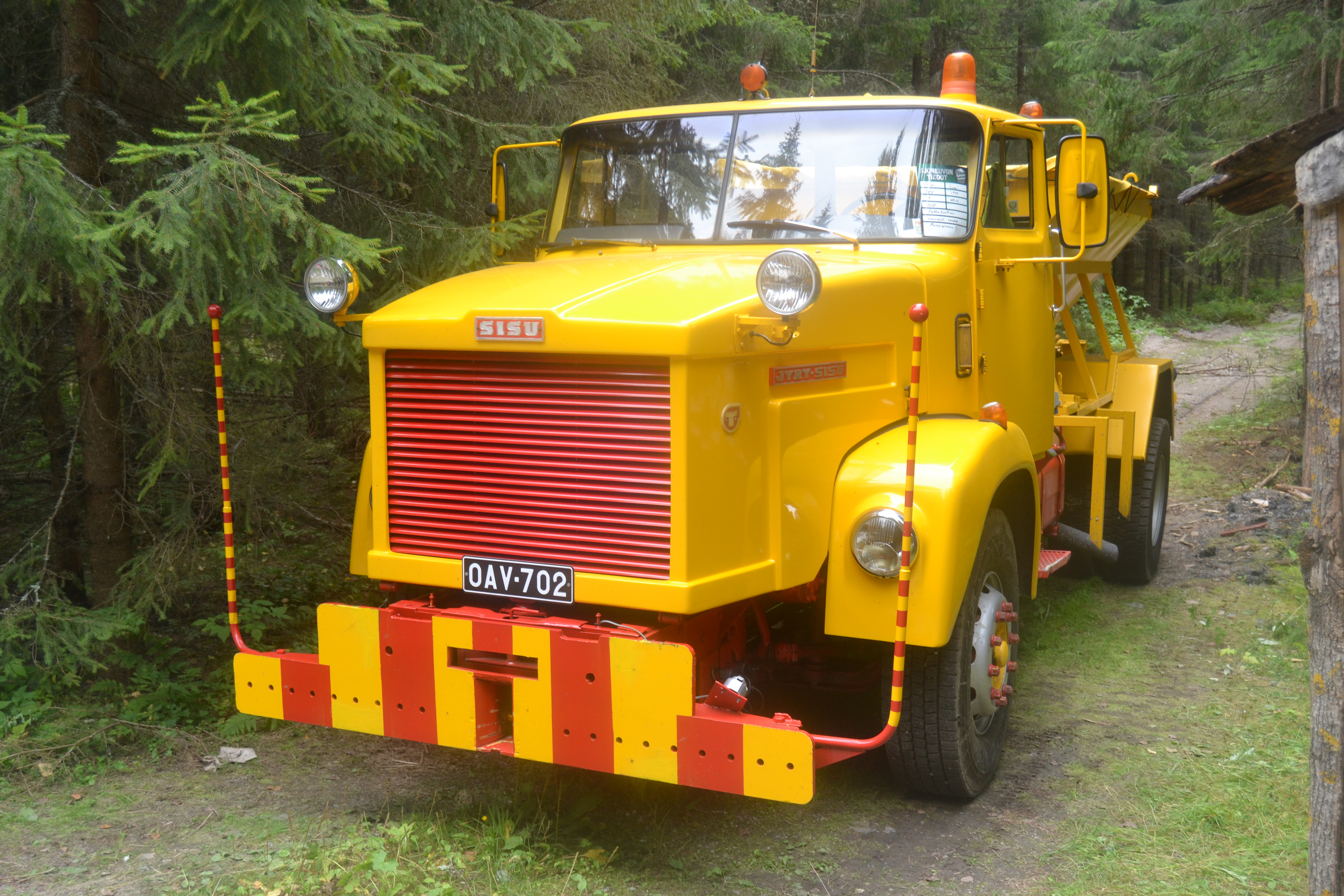 Jyry-Sisu R-141BPT 4×2 truck with a turbocharged Leyland O.690 engine.